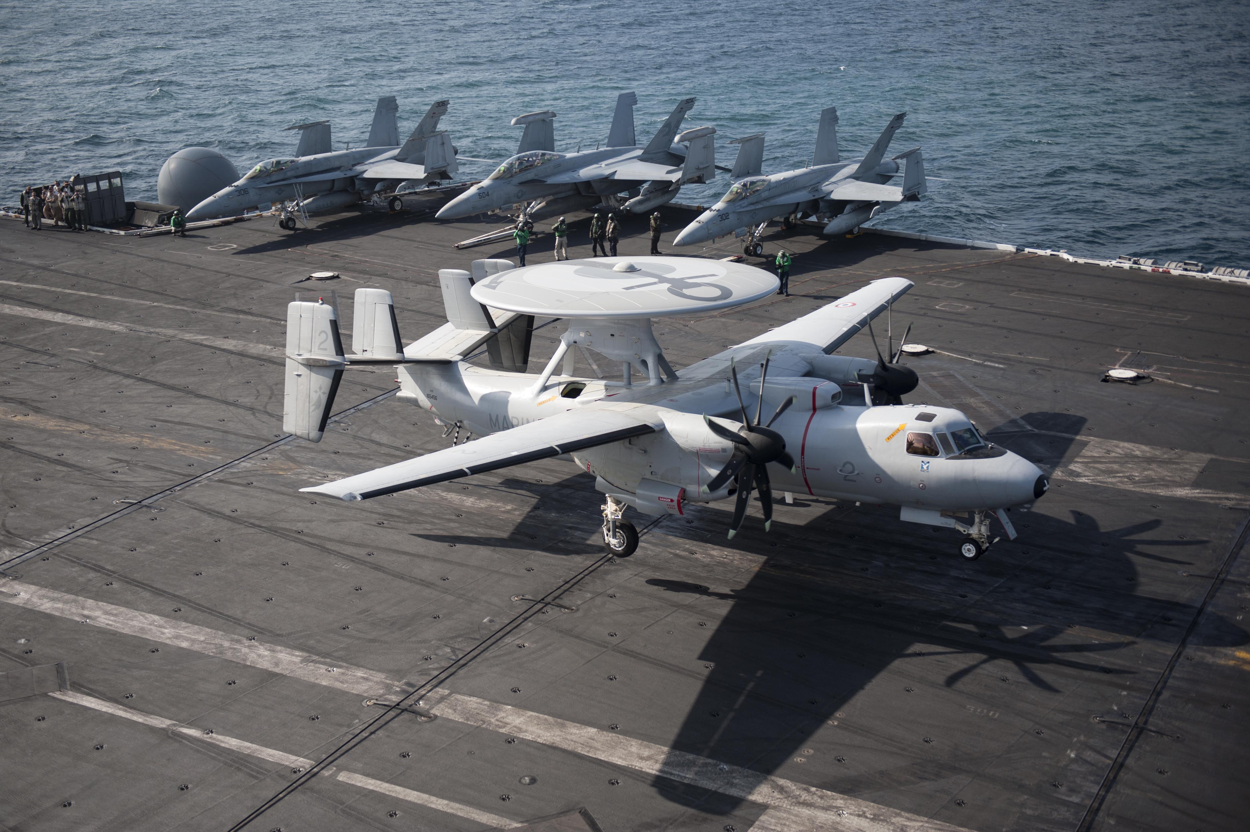 A French Aéronavale Grumman E-2C Hawkeye, assigned to the aircraft carrier Charles de Gaulle (R91), lands aboard the U.S. Navy aircraft carrier USS Harry S. Truman (CVN-75) during carrier qualification integration in the Arabian Gulf. Harry S. Truman was conducting operations with units assigned to French Task Force 473 to enhance levels of cooperation and interoperability, enhance mutual maritime capabilities and promote long-term regional stability in the U.S. 5th Fleet area of responsibility.